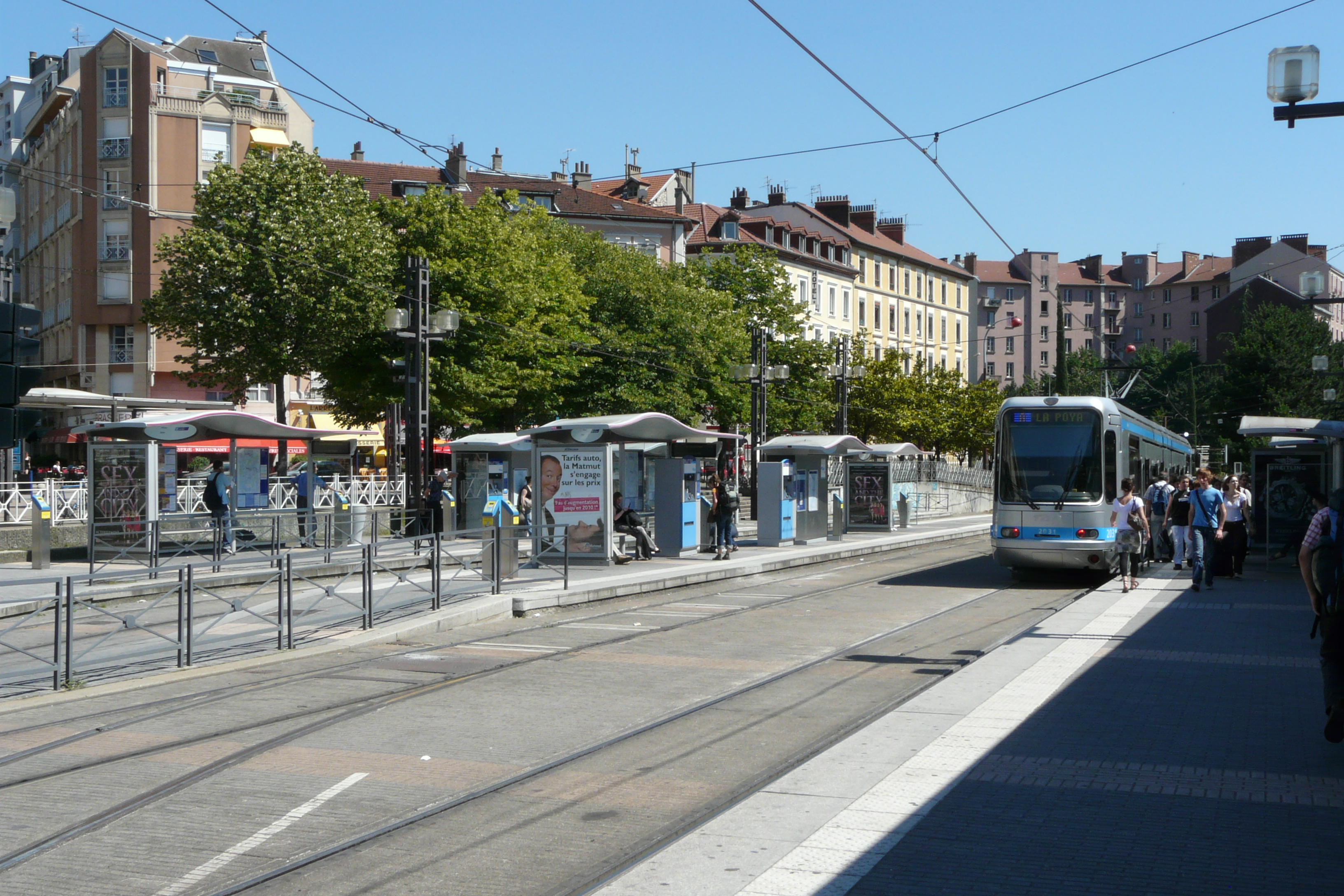 Tram Station Gares in Grenoble